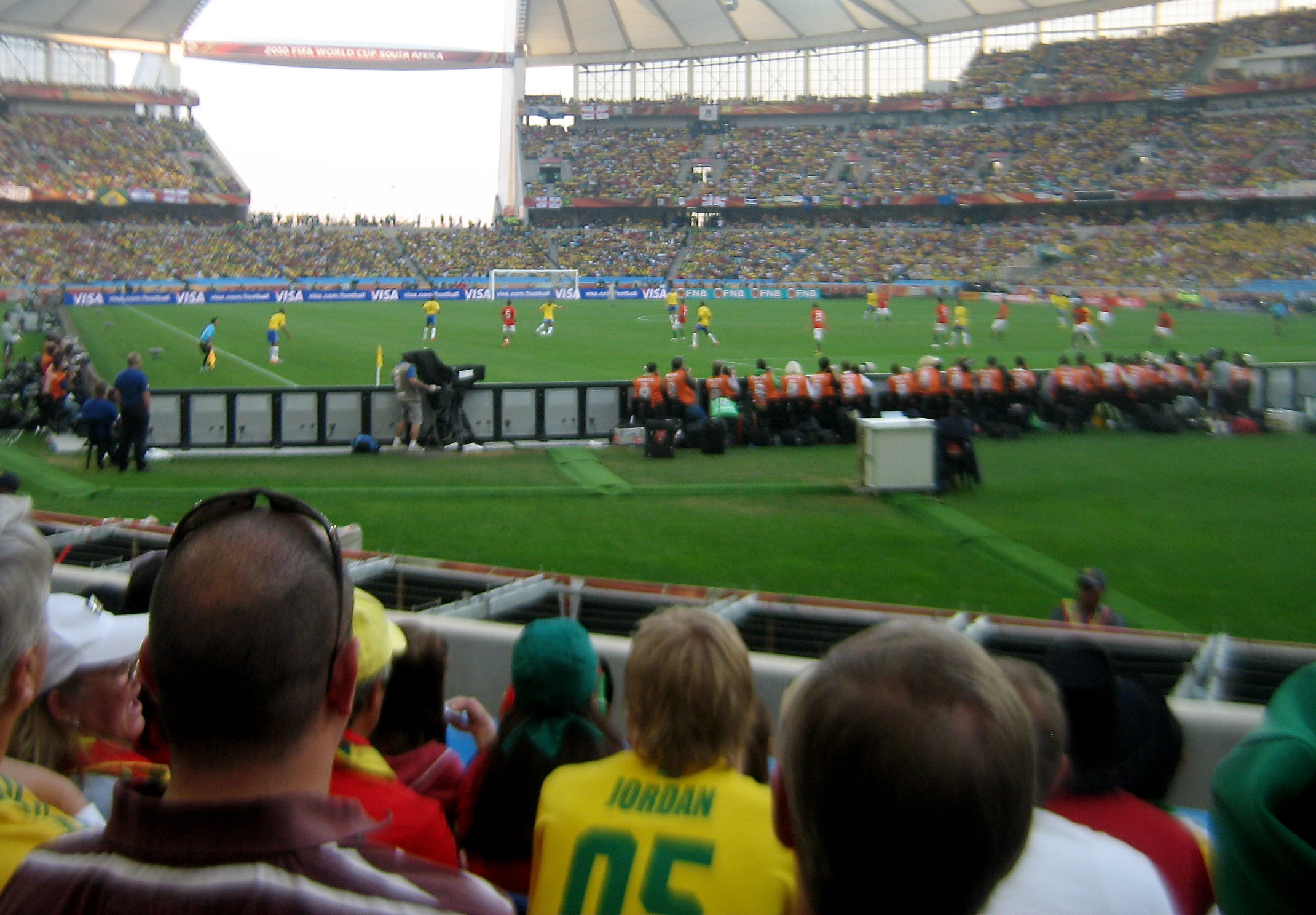 Teams during the game between Portugal and Brazil at FIFA World Cup 2010, 25 June 2010, Moses Mabhida Stadium, Durban